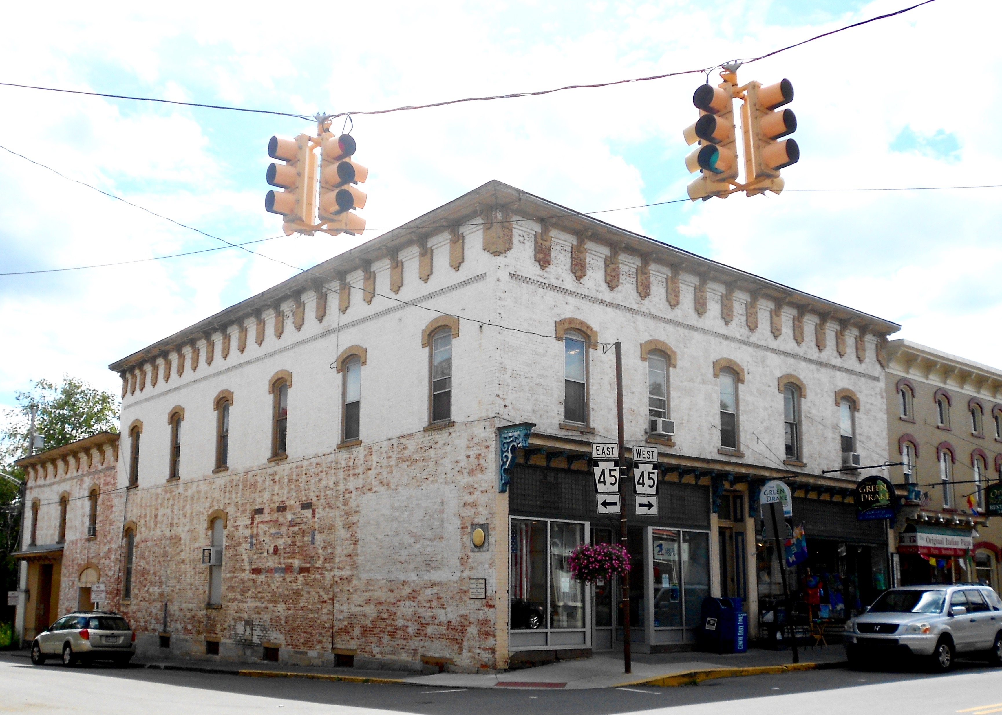 Post office in Milheim, Centre County, Pennsylvania